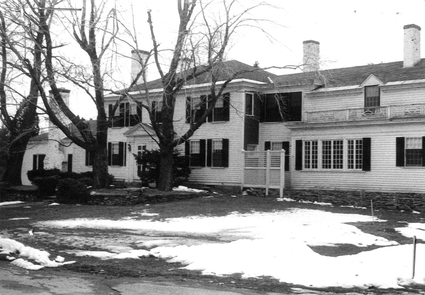 Barlin Acres, Boylston, Massachusetts. This house has been demolished.